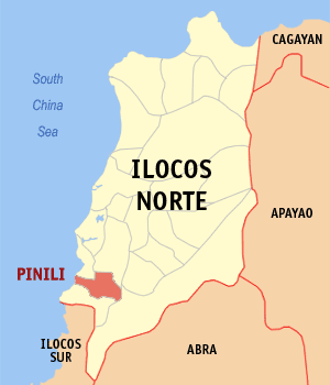 Map of Ilocos Norte showing the location of Panili